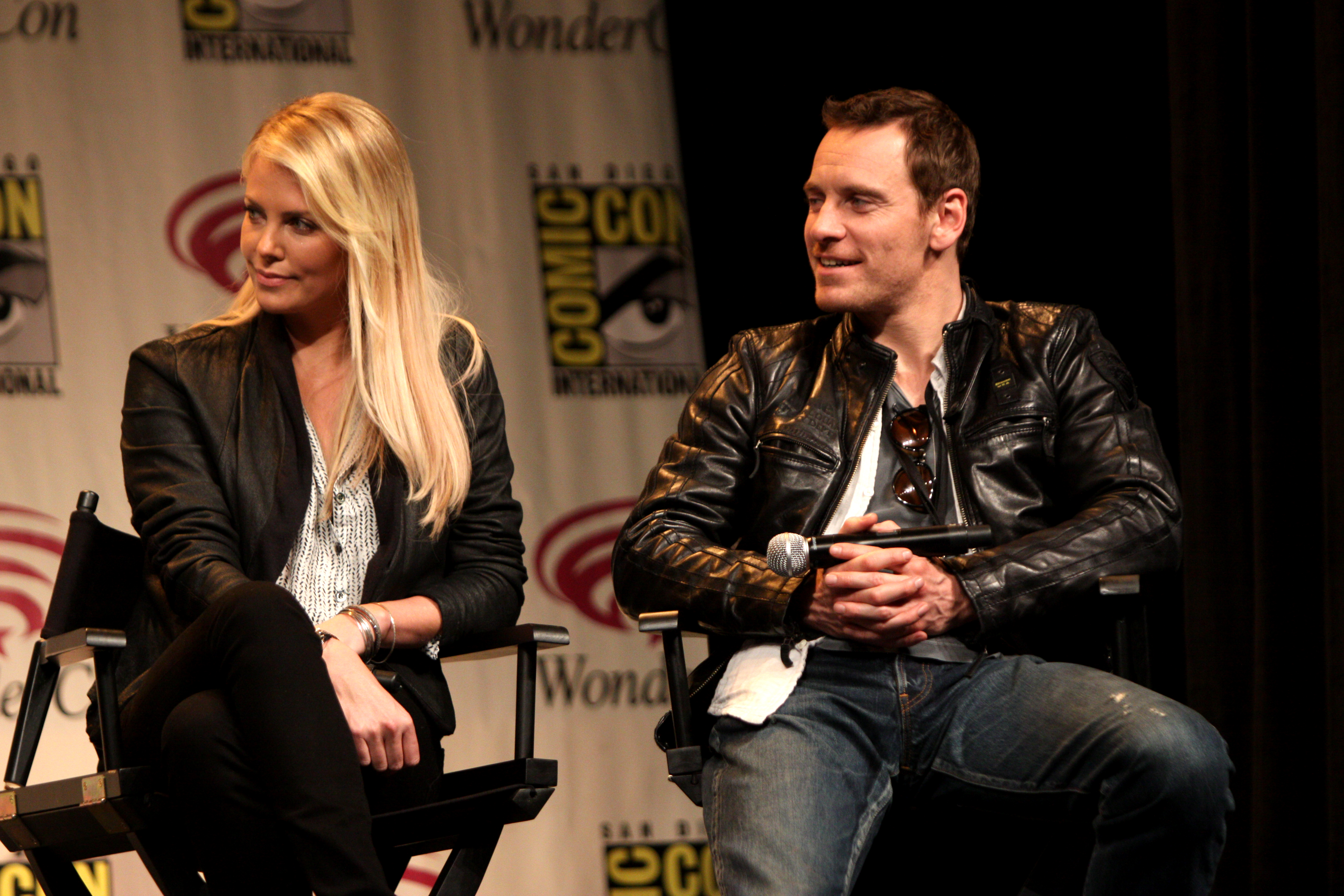 Charlize Theron and Michael Fassbender speaking at the 2012 WonderCon in Anaheim, California.